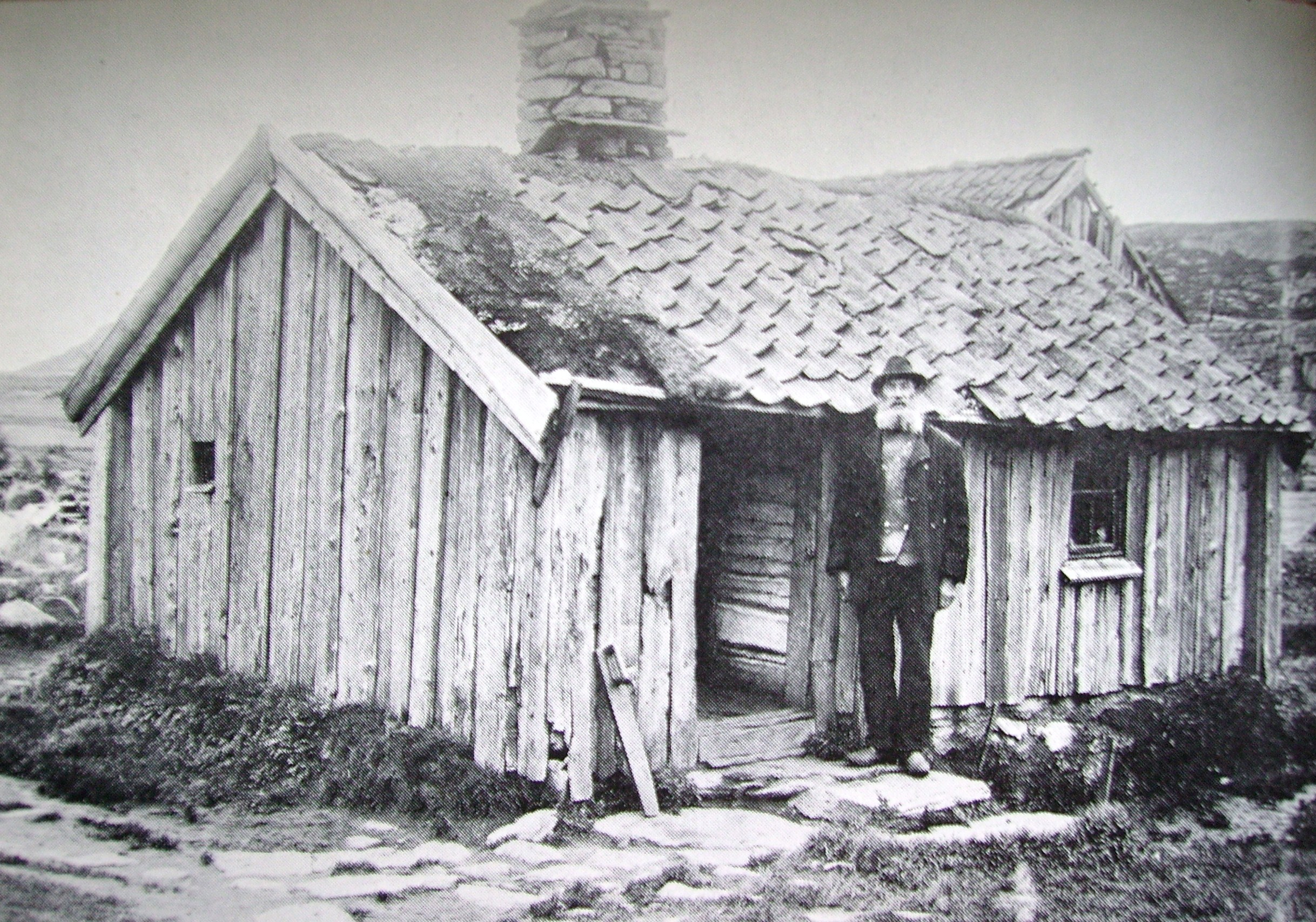 A cottage in the county of Bohuslän in Sweden